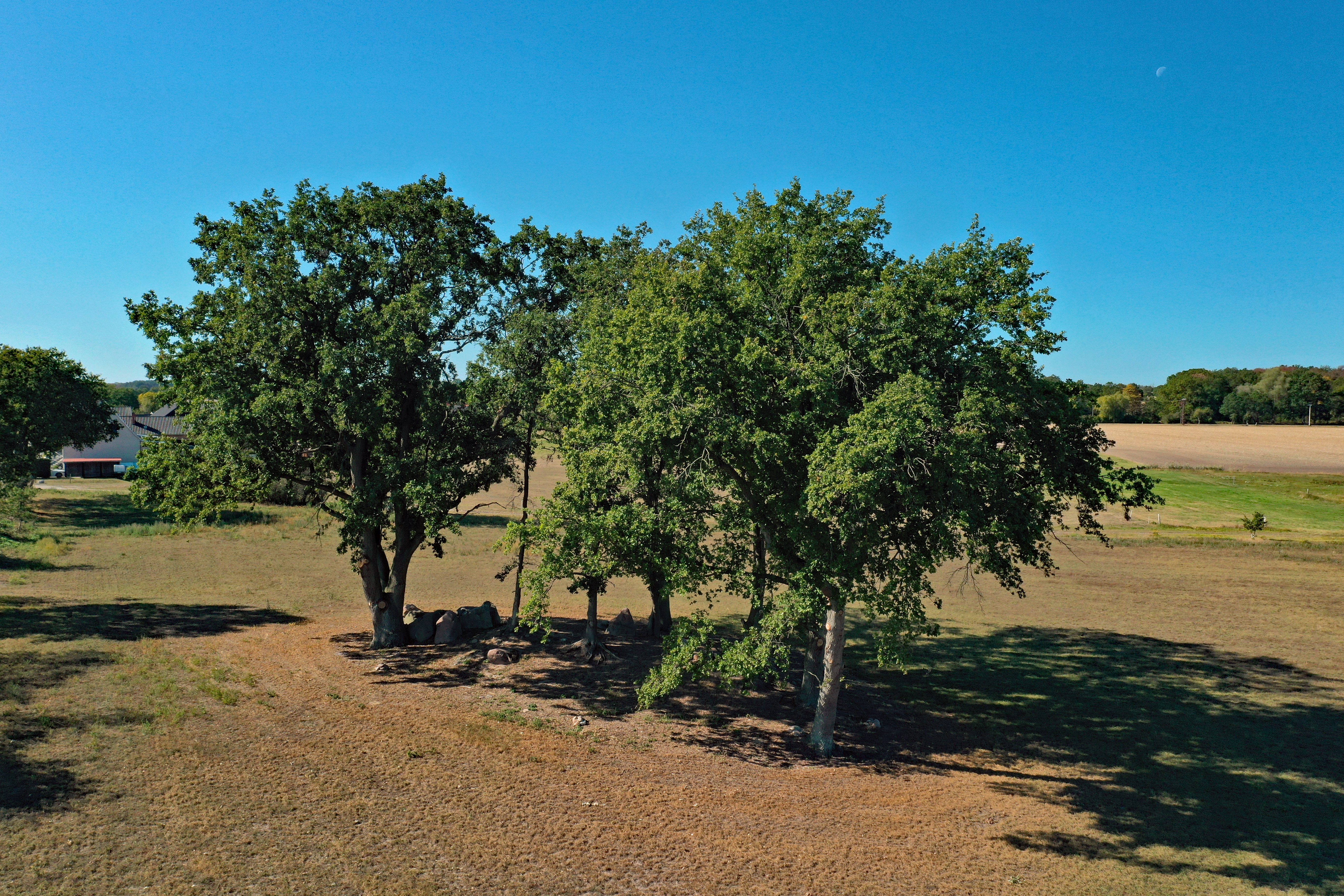 Megalithic in Altmark (Saxony-Anhalt, Germany) Mehmke 2